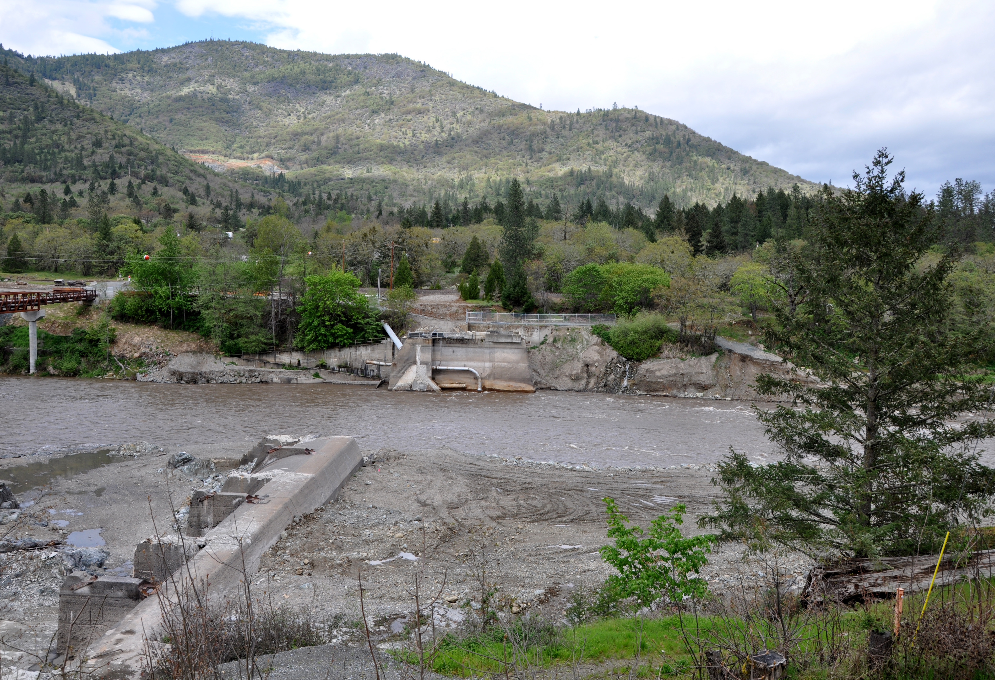 Remains of Savage Rapids Dam on the Rogue River in the U.S. state of Oregon. The dam site is 5 miles (8.0 km) upstream of Grants Pass.